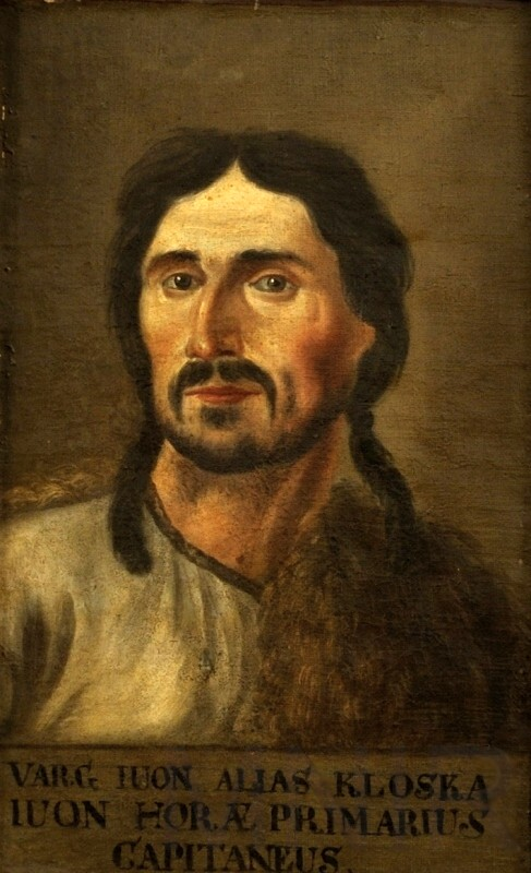 Ion Oargă (Cloșca, 1747-1785)